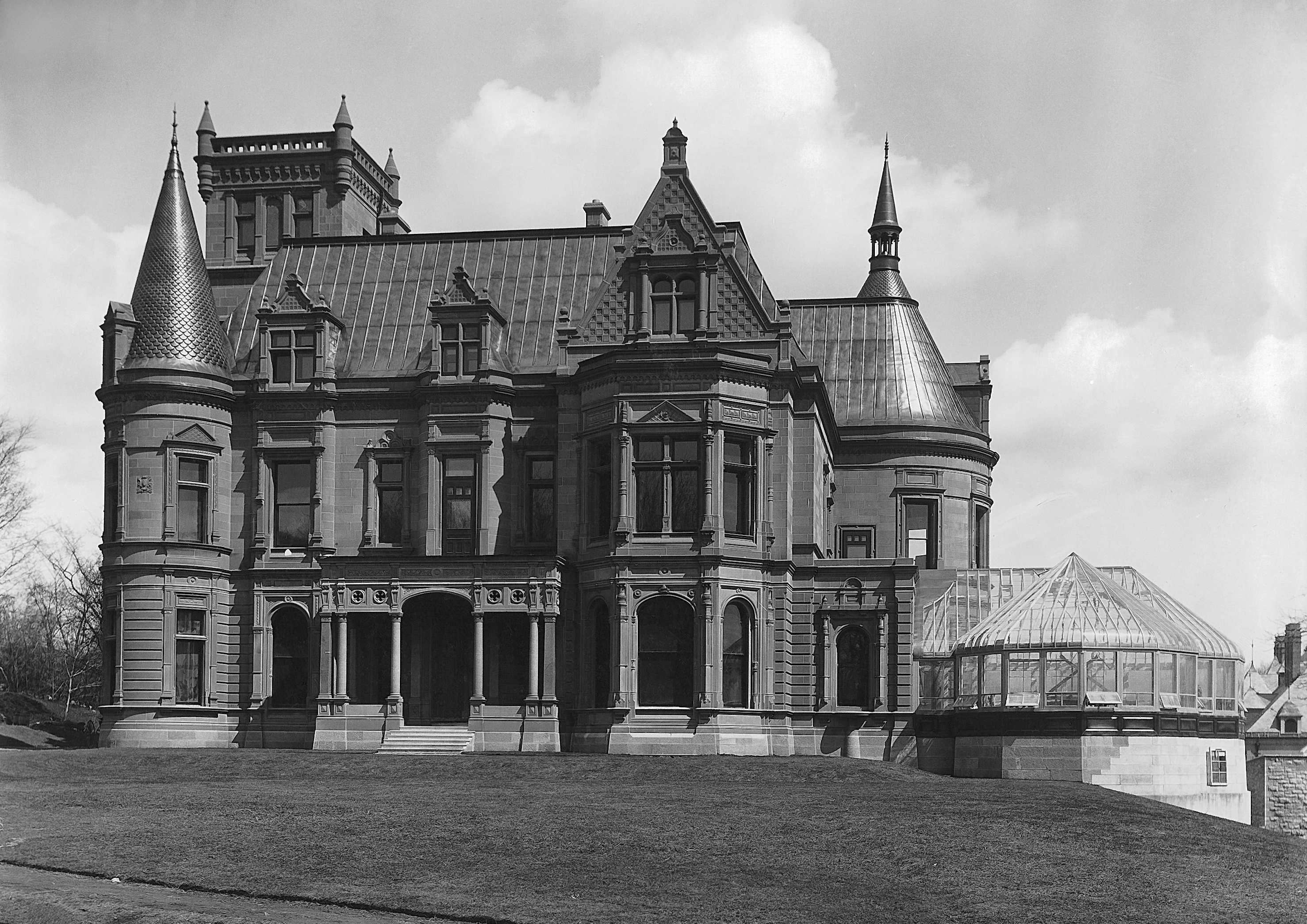 Duncan McIntyre's house "Craguie", McGregor Street (now Drummond Street), Montreal, QC, about 1890, destroyed in 1930 to make place in 1965 to the McIntyre Medical Sciences and Stewart Biological Sciences Buildings. About 1890, 19th century; Silver salts on glass - Gelatin dry plate process; 20 x 25 cm.